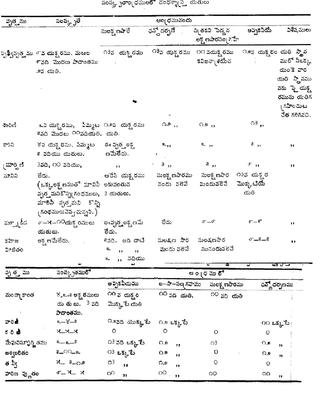 సంస్కృతాంధ్రములో చంధశాస్త్ర యతులు